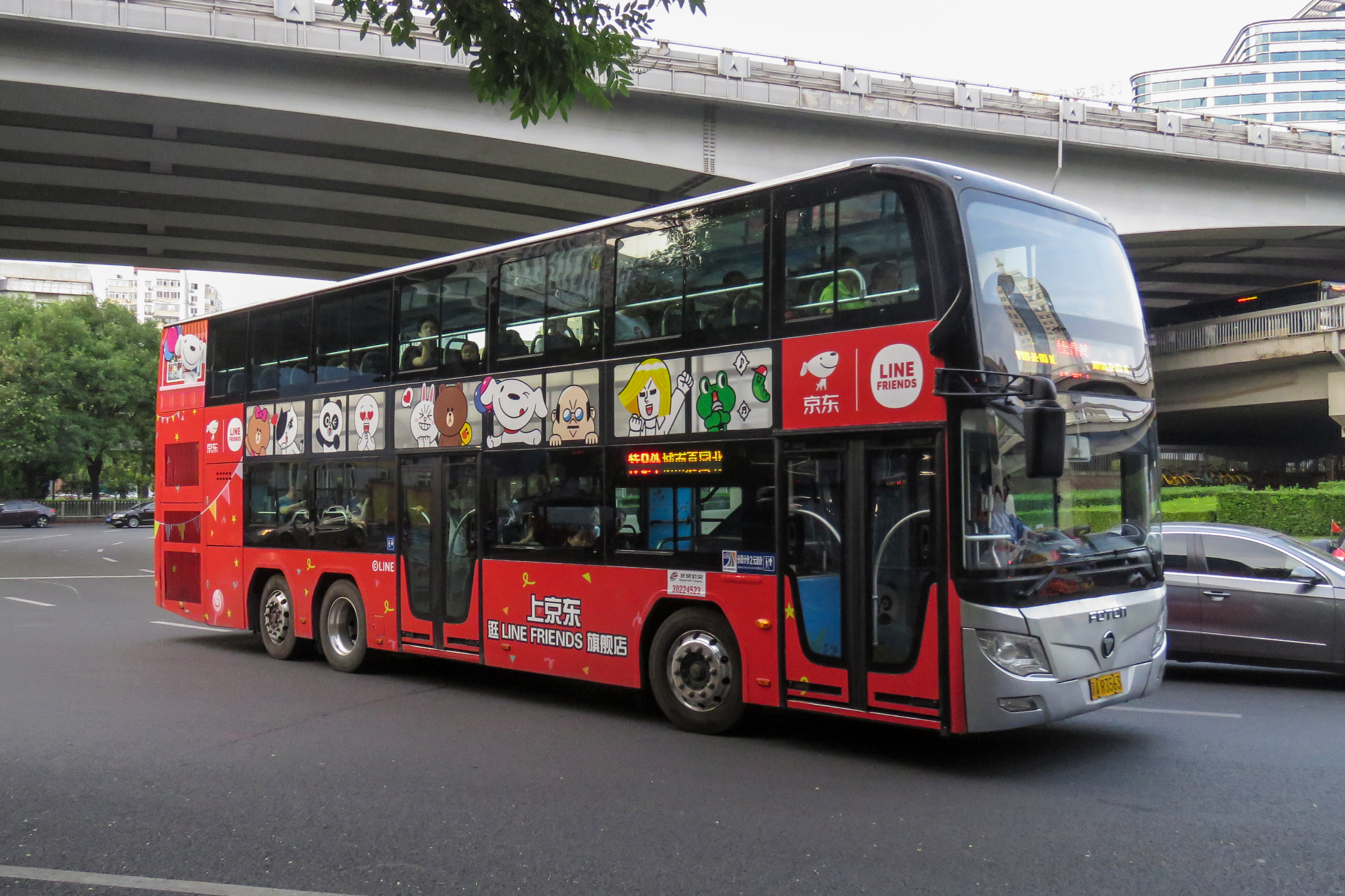 Counter-clockwise arriving in Line Friends official shop on advertisement.